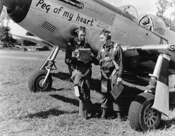 North American P-51A (F-5) of the 67th Reconnaissance Group, Membury Airfield England during World War II.